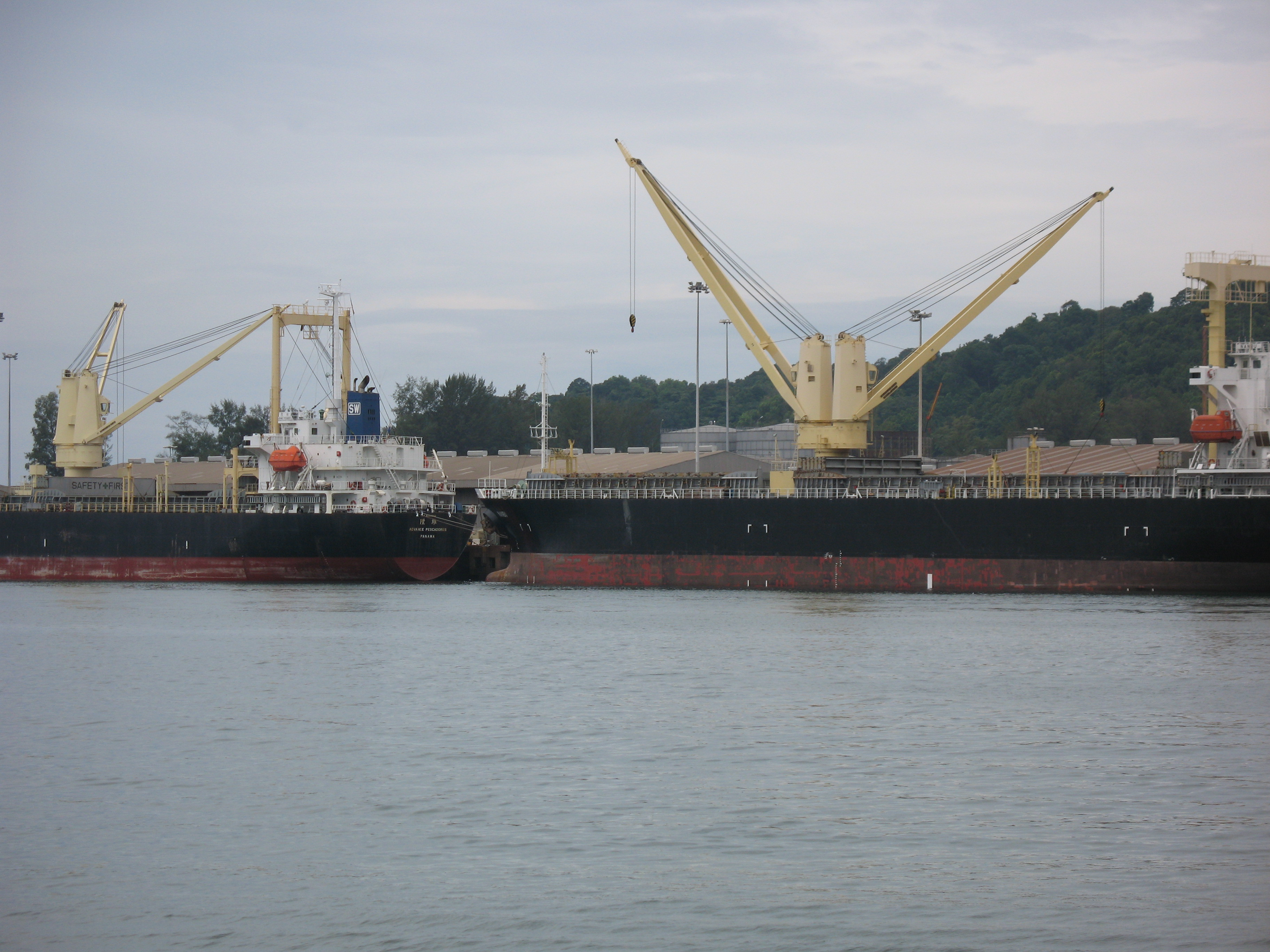 "I took this picture at Kuantan Port on 25 July 2007. Kuantan Port has a lot of liquid cargo berths. This is one of them."